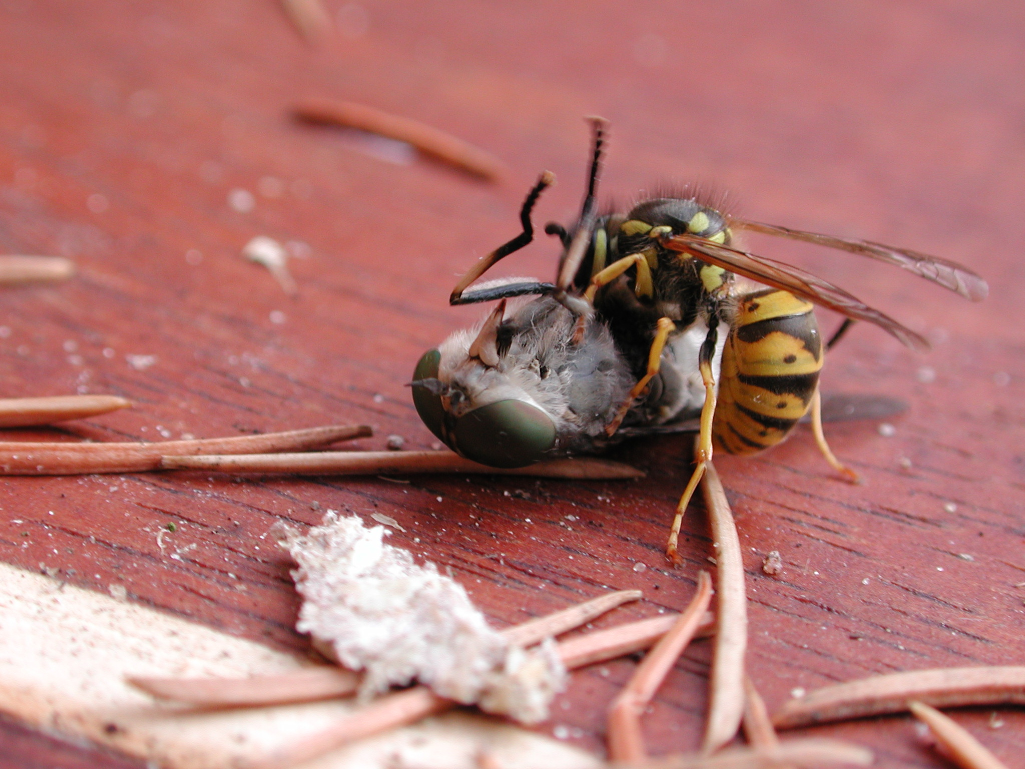 Lots of buzzing noise from the floor of a sloop. A wasp attacks and eats a horsefly. Picture 1 of 4.